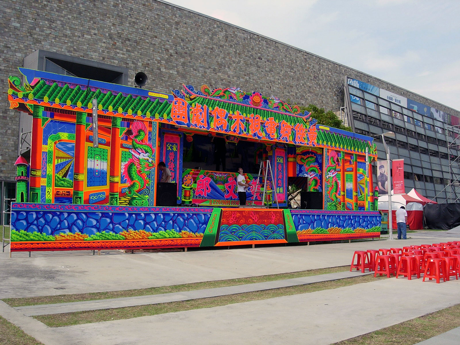 Taiwan Puppet Stage 布袋戲的舞台; 攝於台中國立美術館